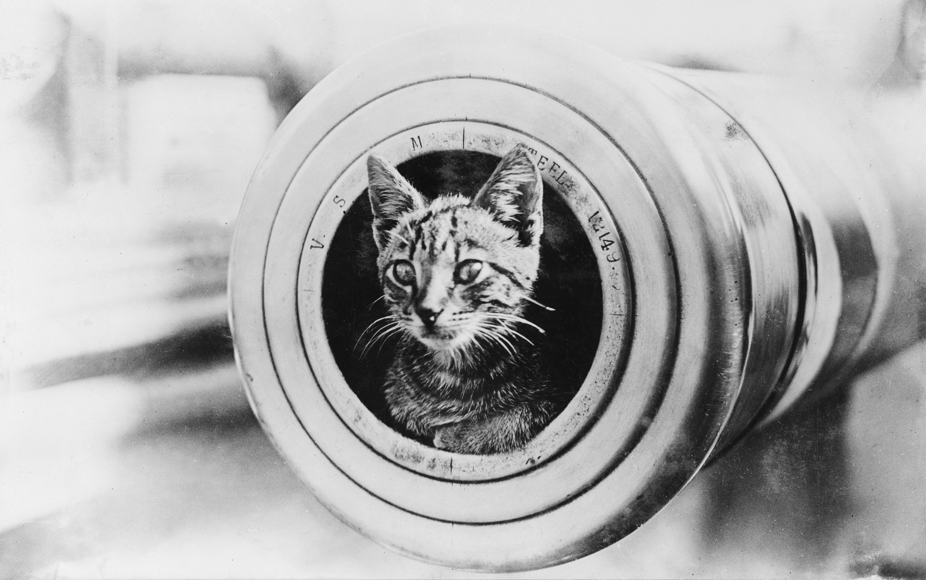 The feline mascot of the Australian light cruiser HMAS Encounter, peering from the muzzle of a 6 inch gun.